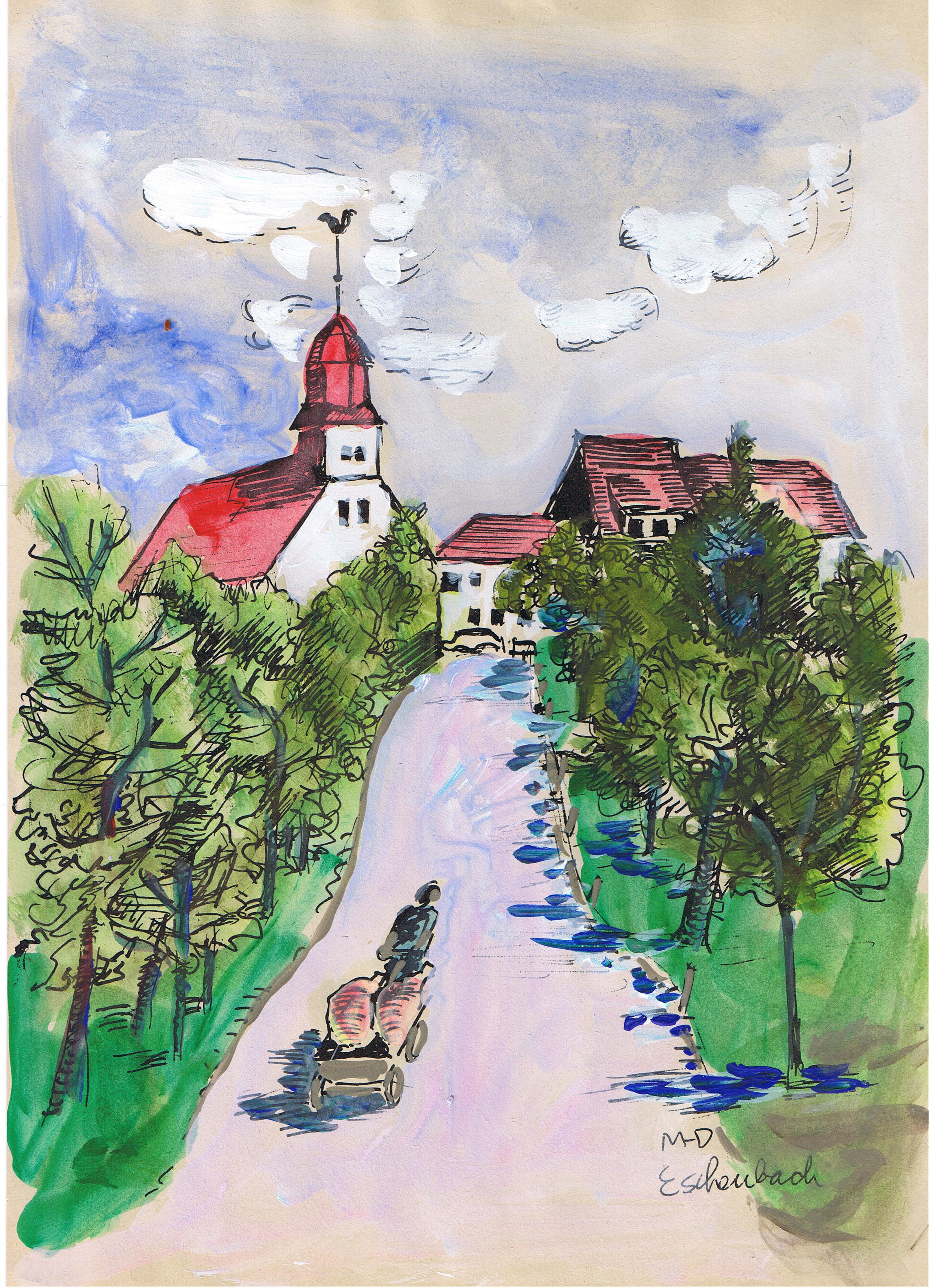 Eschenbach (Württemberg), water color